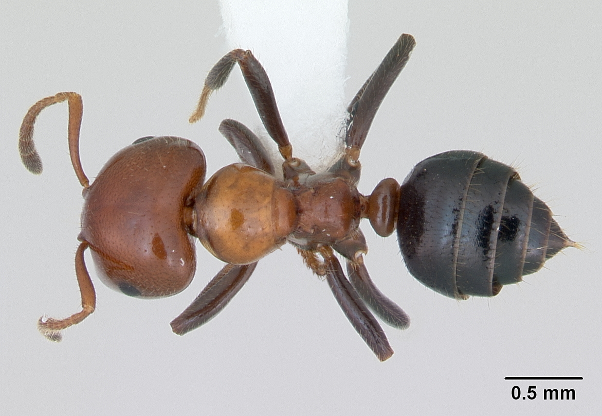 Dorsal view of ant Myrmelachista arthuri specimen casent0173484.